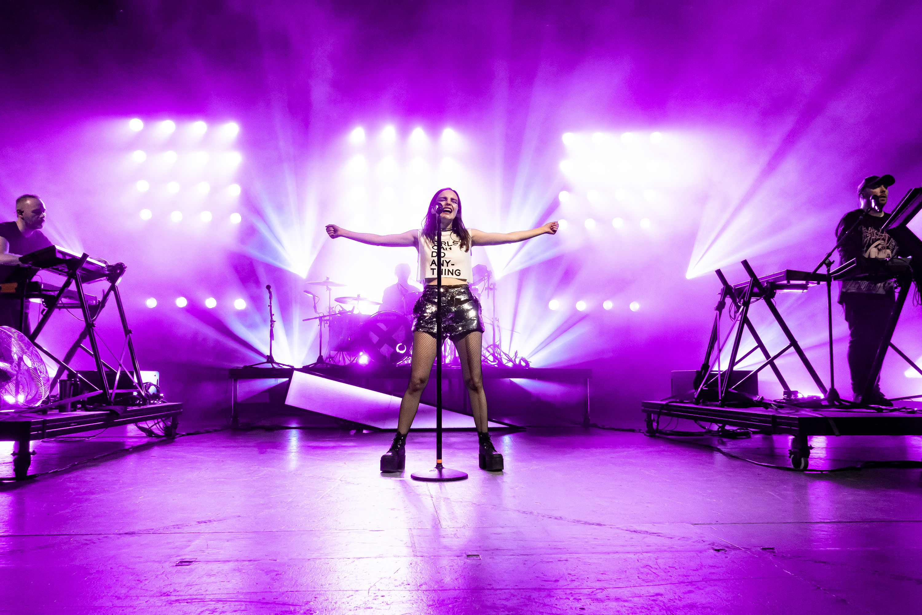 Chvrches performing live at The Greek theatre in Griffith Park, Los Angeles, California, on Sunday, September 23, 2018.